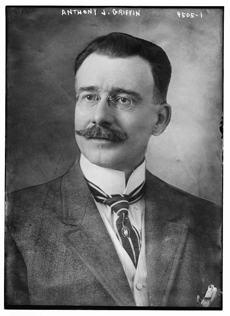 Photograph of New York Congressman Anthony Jerome Griffin (1866-1935)